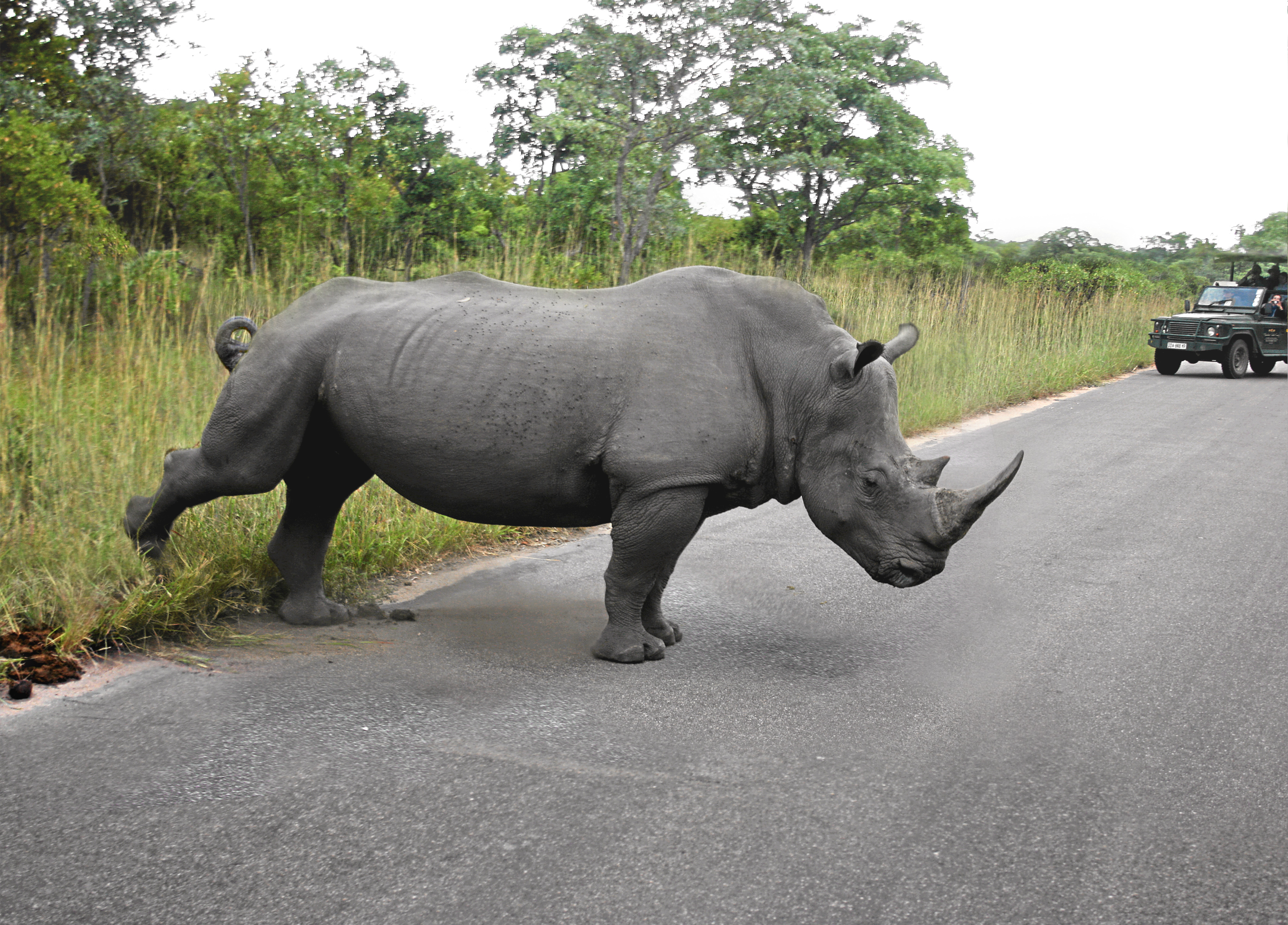 A white rhinoceros (Ceratotherium simum) in Kruger National Park marking its territory.